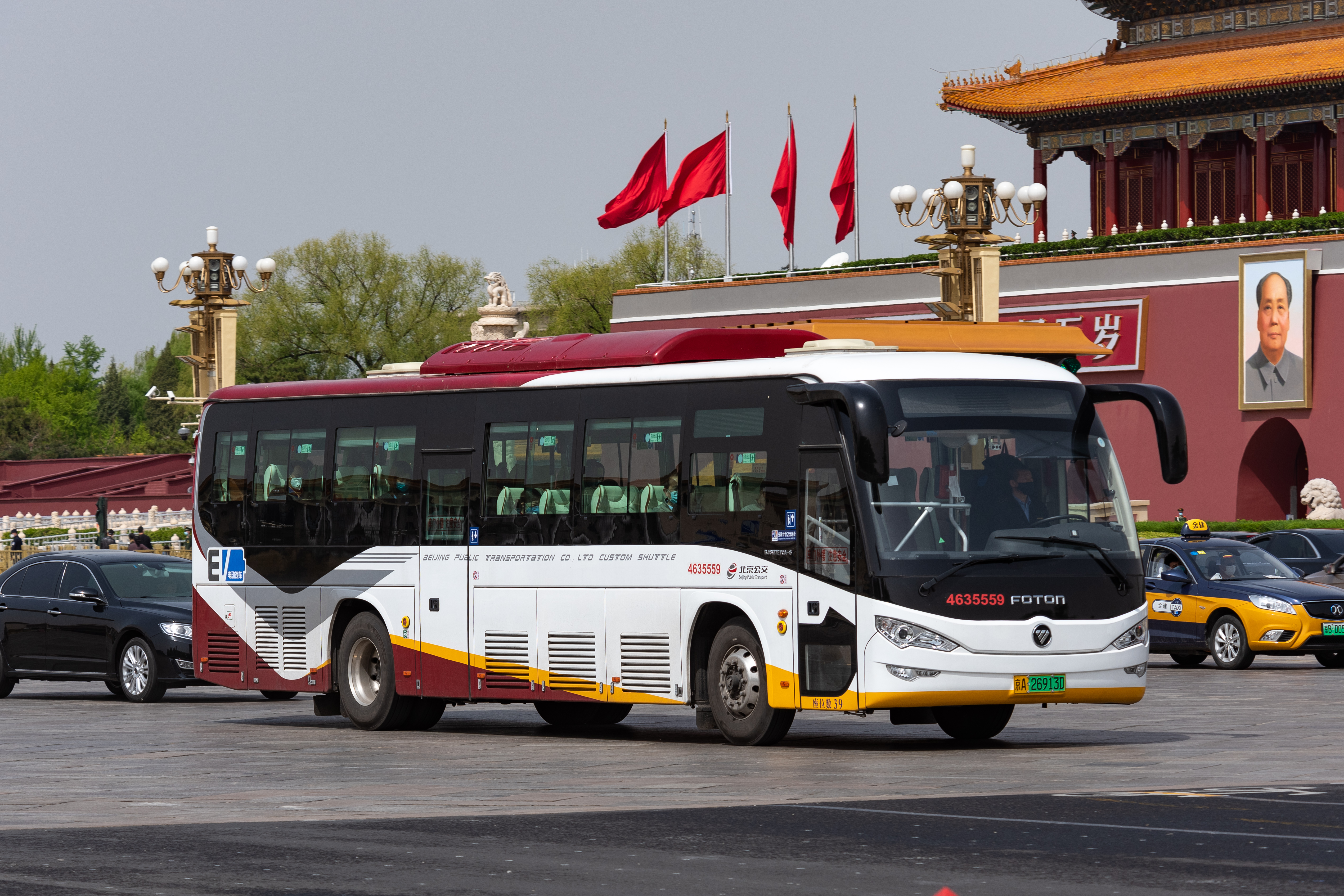 Whose charter is it?